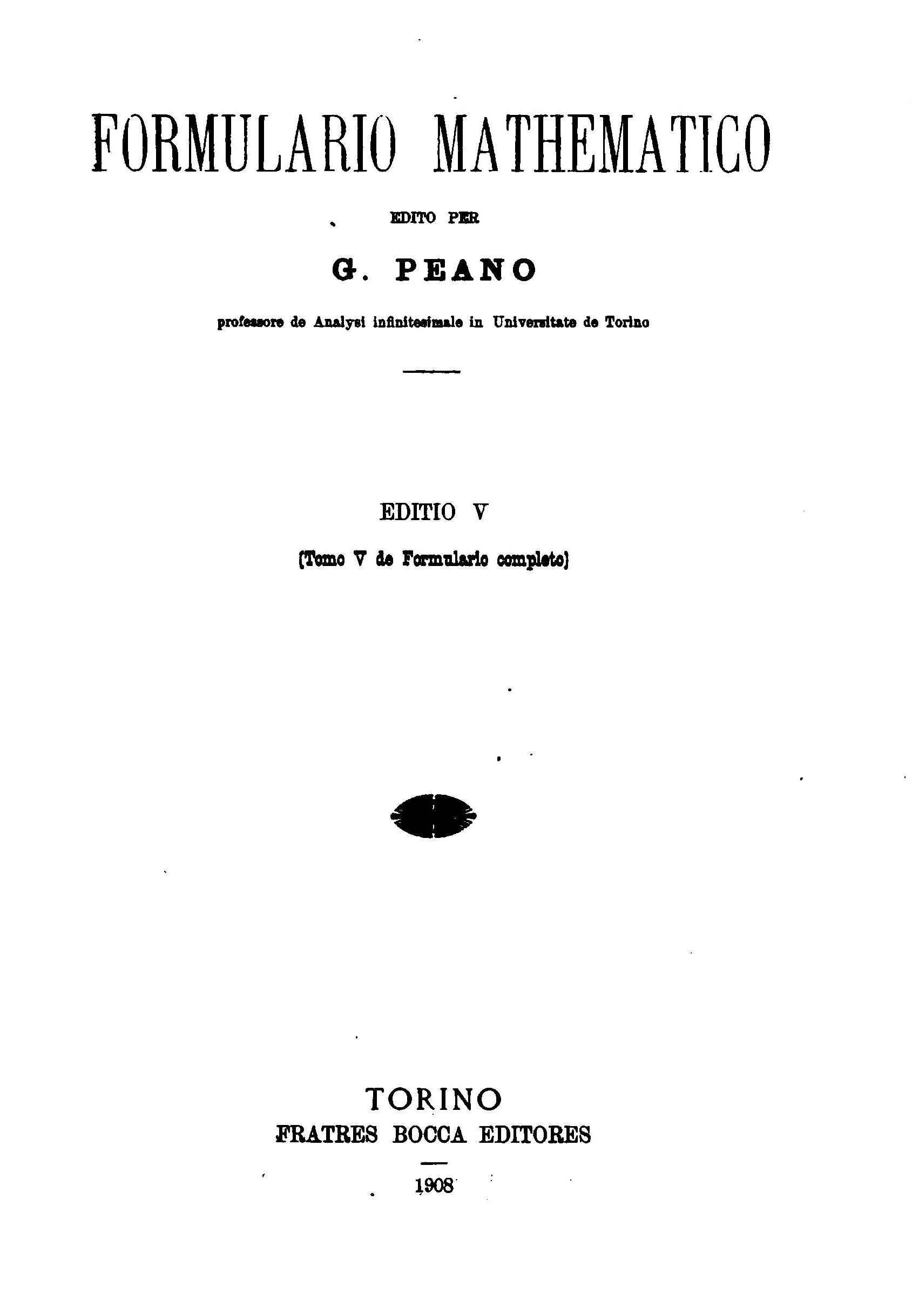 First page of Giuseppe Peano's Formulario mathematico, 1908